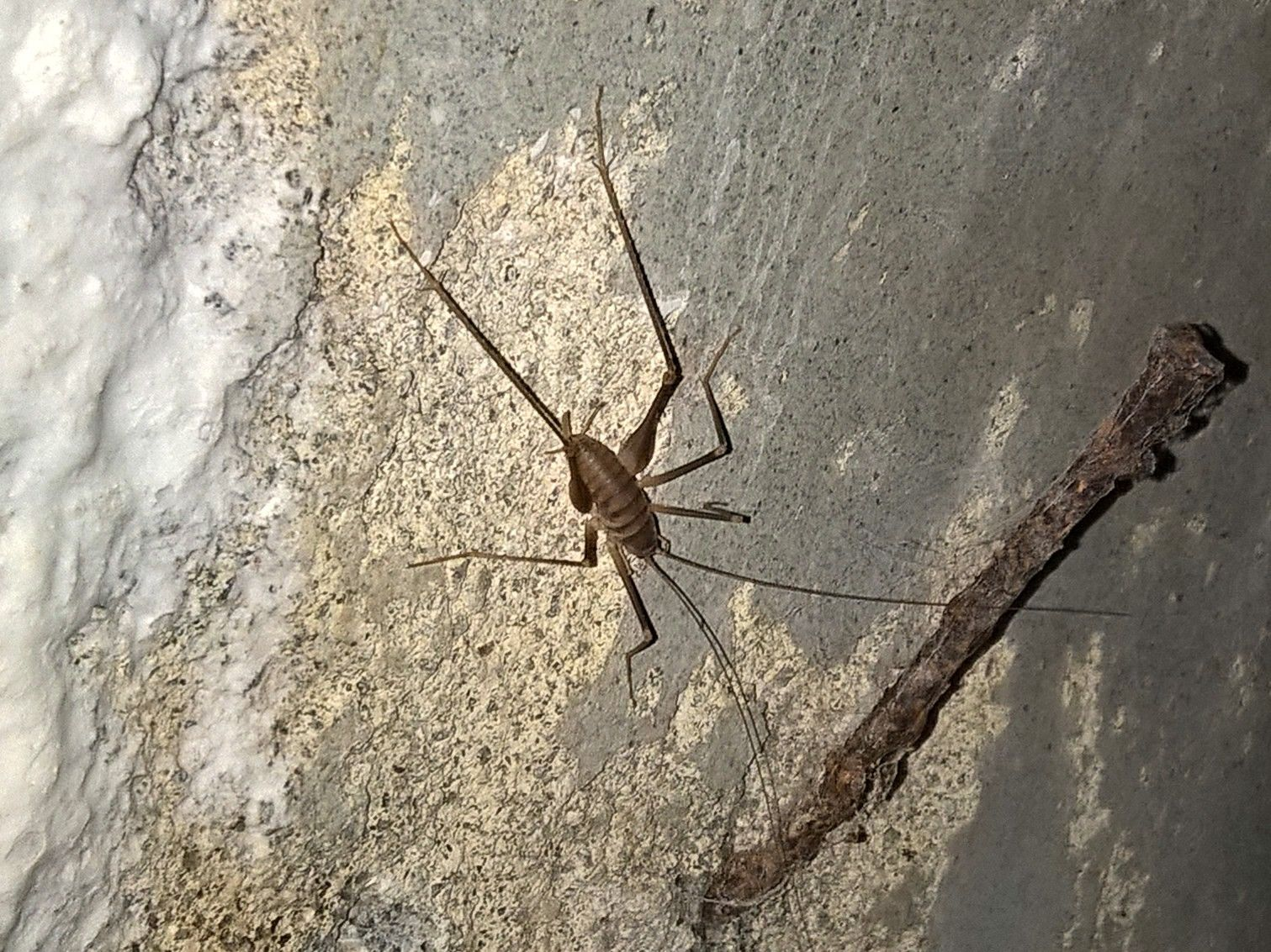 Dolicopoda schiavazzi, photo taken inside the Springs of Colognole near Leghorn, Italy.